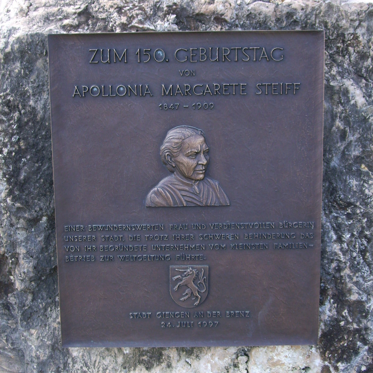 Memorial stone for Margarete Steiff in front of the factory